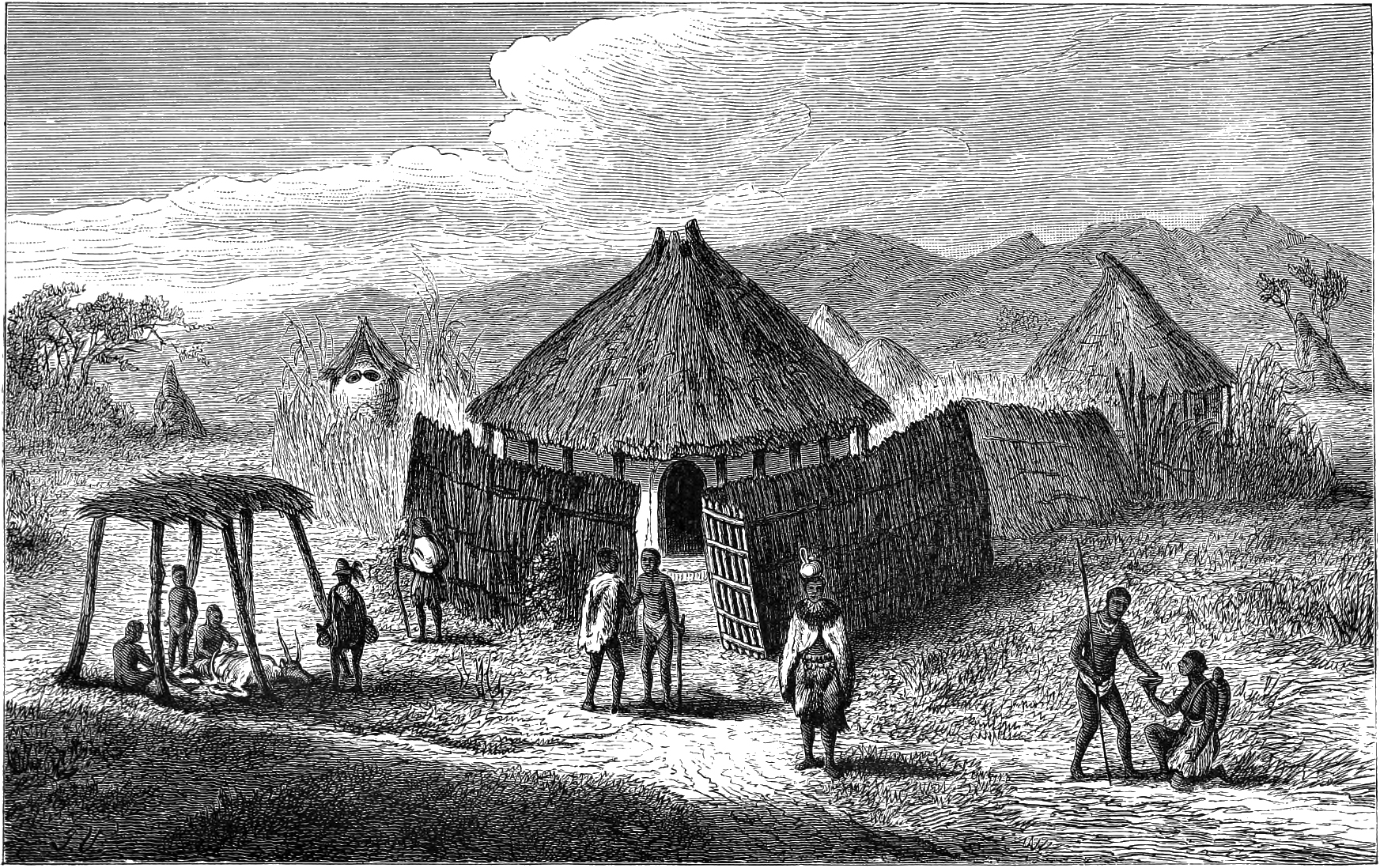 Bamangwato huts at Shoshong, from the book Seven Years in South Africa, volume 1, page 372